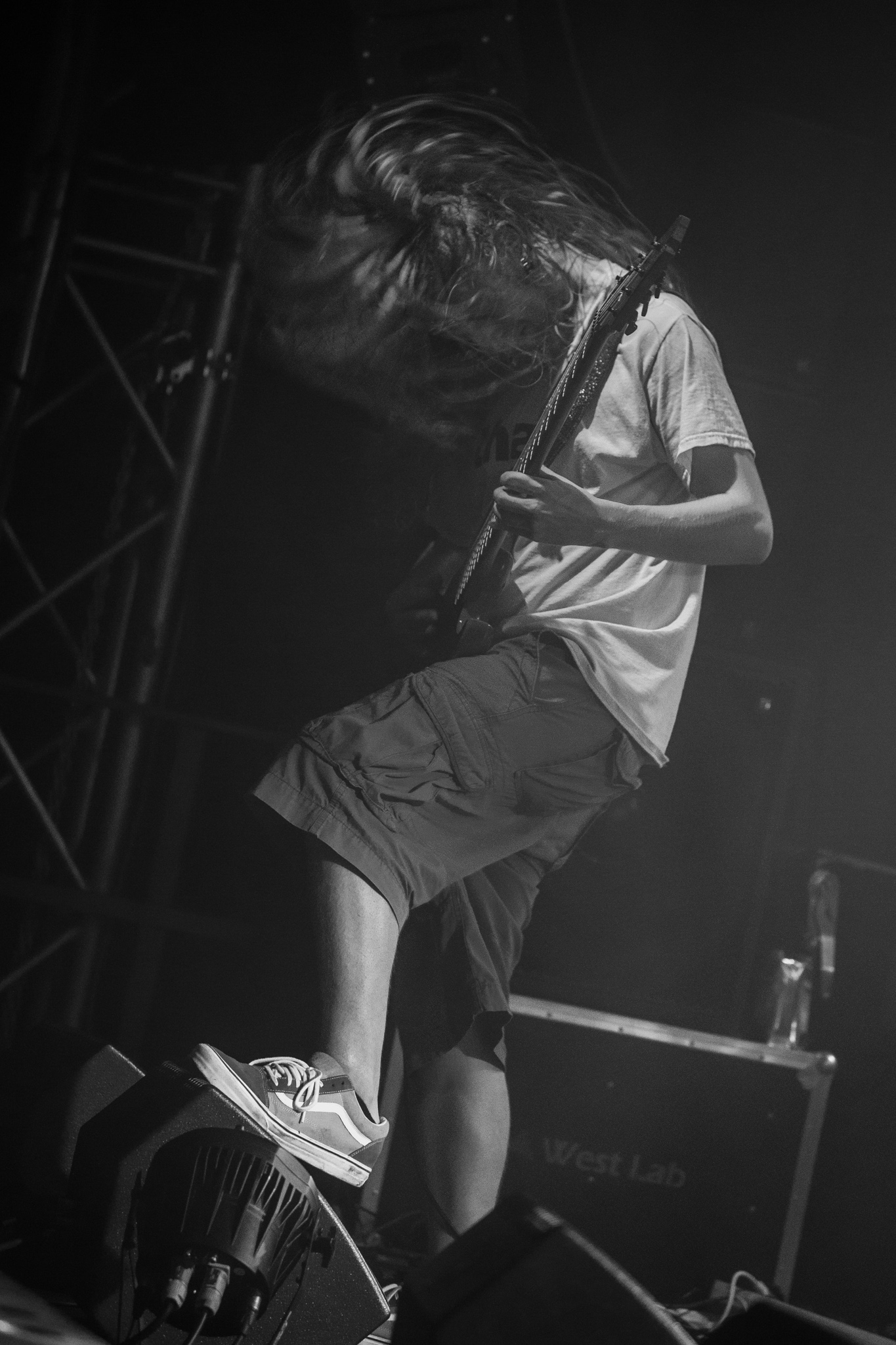 Vildhjarta performing at the Euroblast Festival in Cologne, October 2014